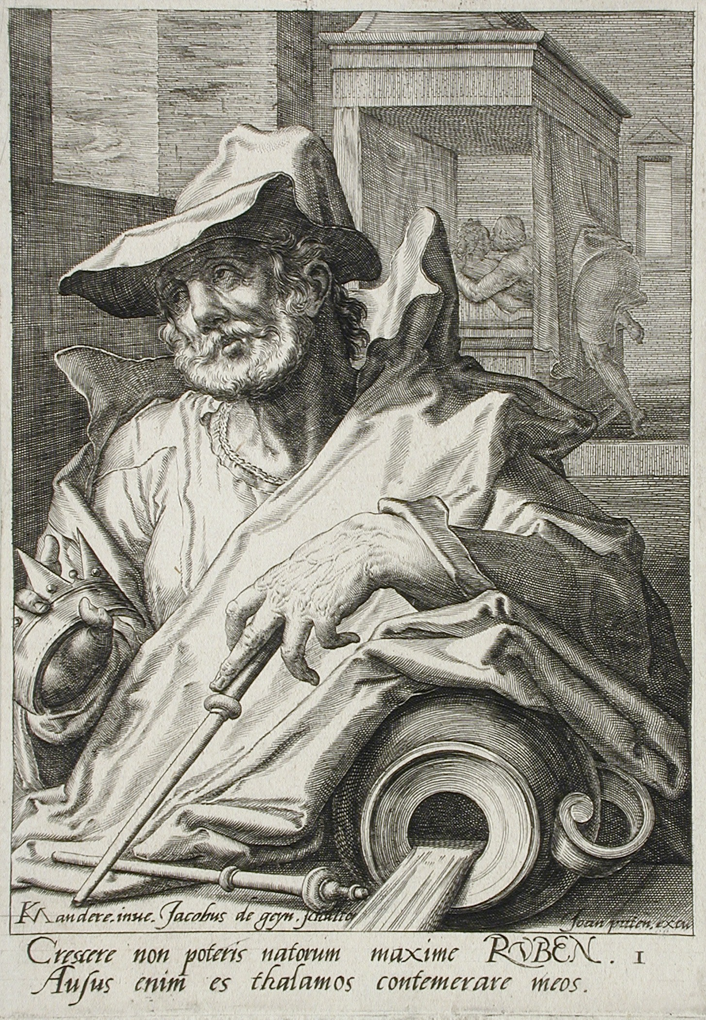 Holland, circa 1590 Series: The Twelve Sons of Jacob, pl. 1 Edition: First edition Prints; engravings Engraving Mary Stansbury Ruiz Bequest (M.88.91.296a) Prints and Drawings